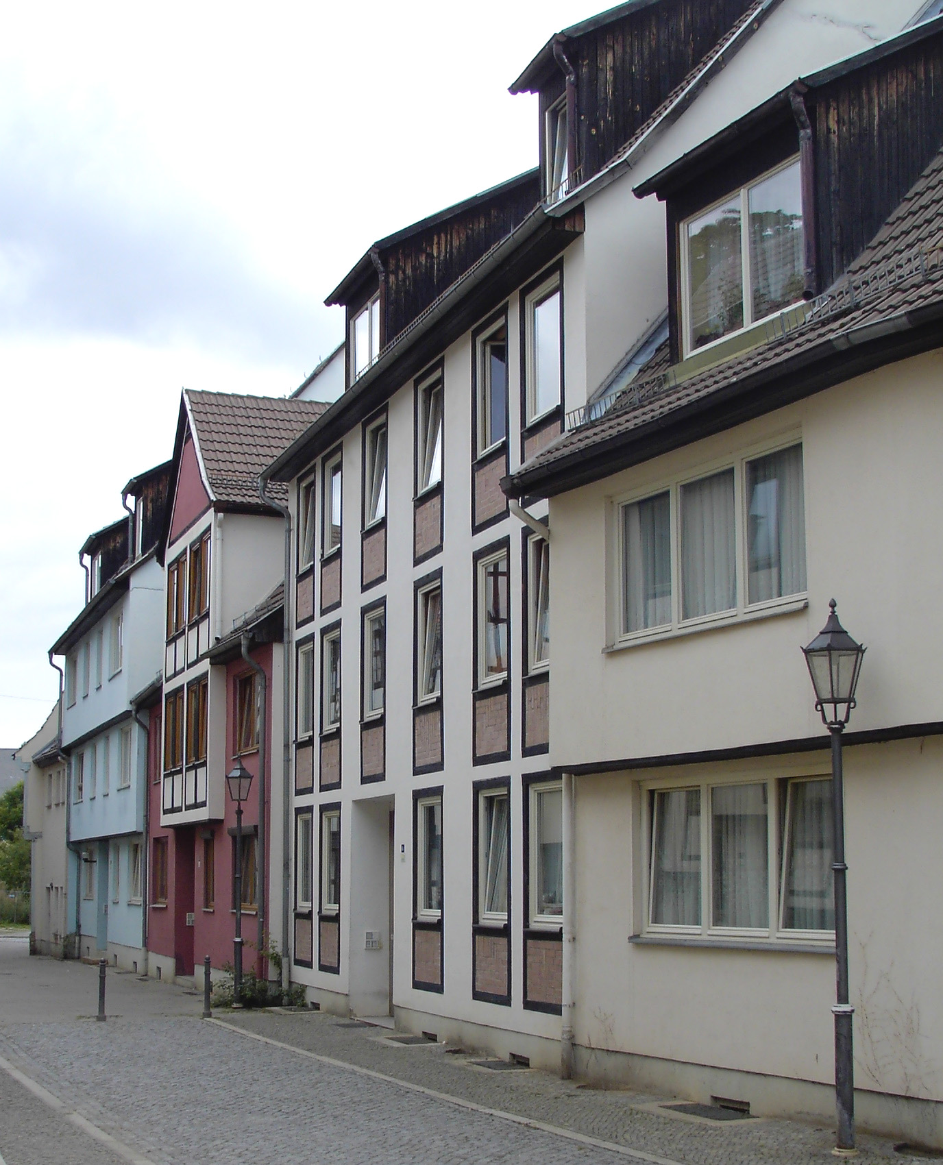 buildings in the "Schmale Straße" in Quedlinburg (Germany)